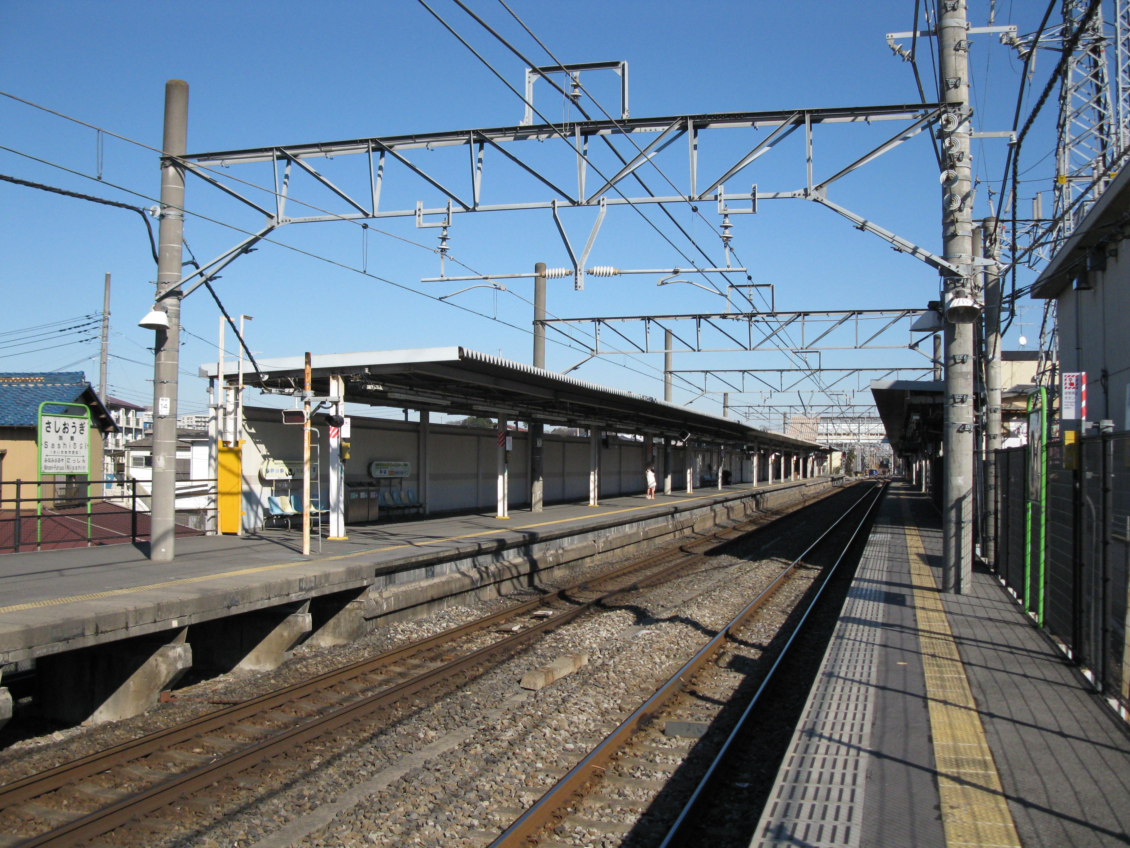 View of the platforms looking east at Sashiōgi Station on the Kawagoe Line in Saitama, Saitama